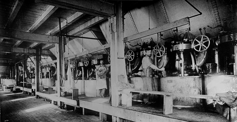 Centrifugal floor, Union Sugar Co. Betteravia, California